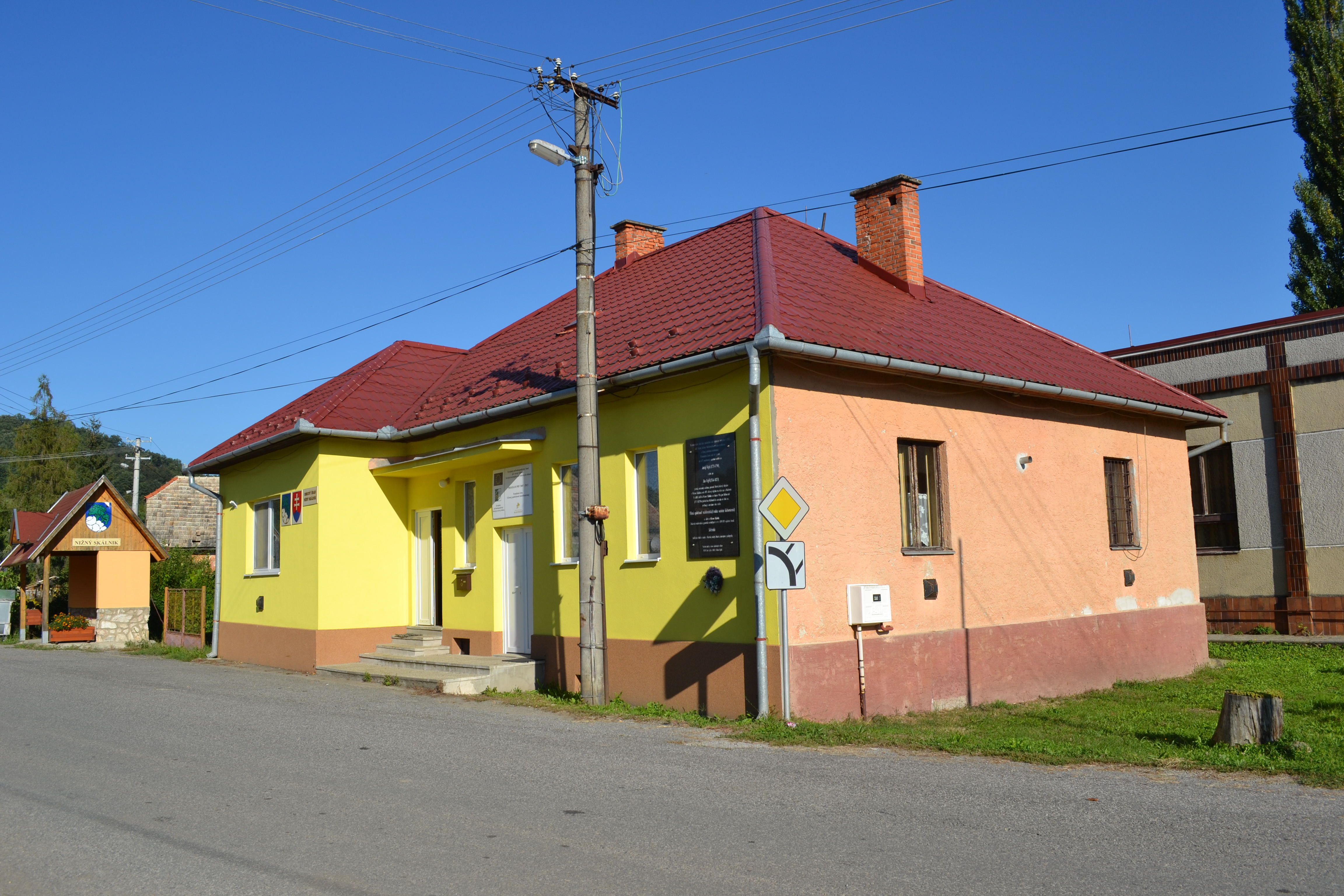 Municipal Office in the village Nižný Skálnik